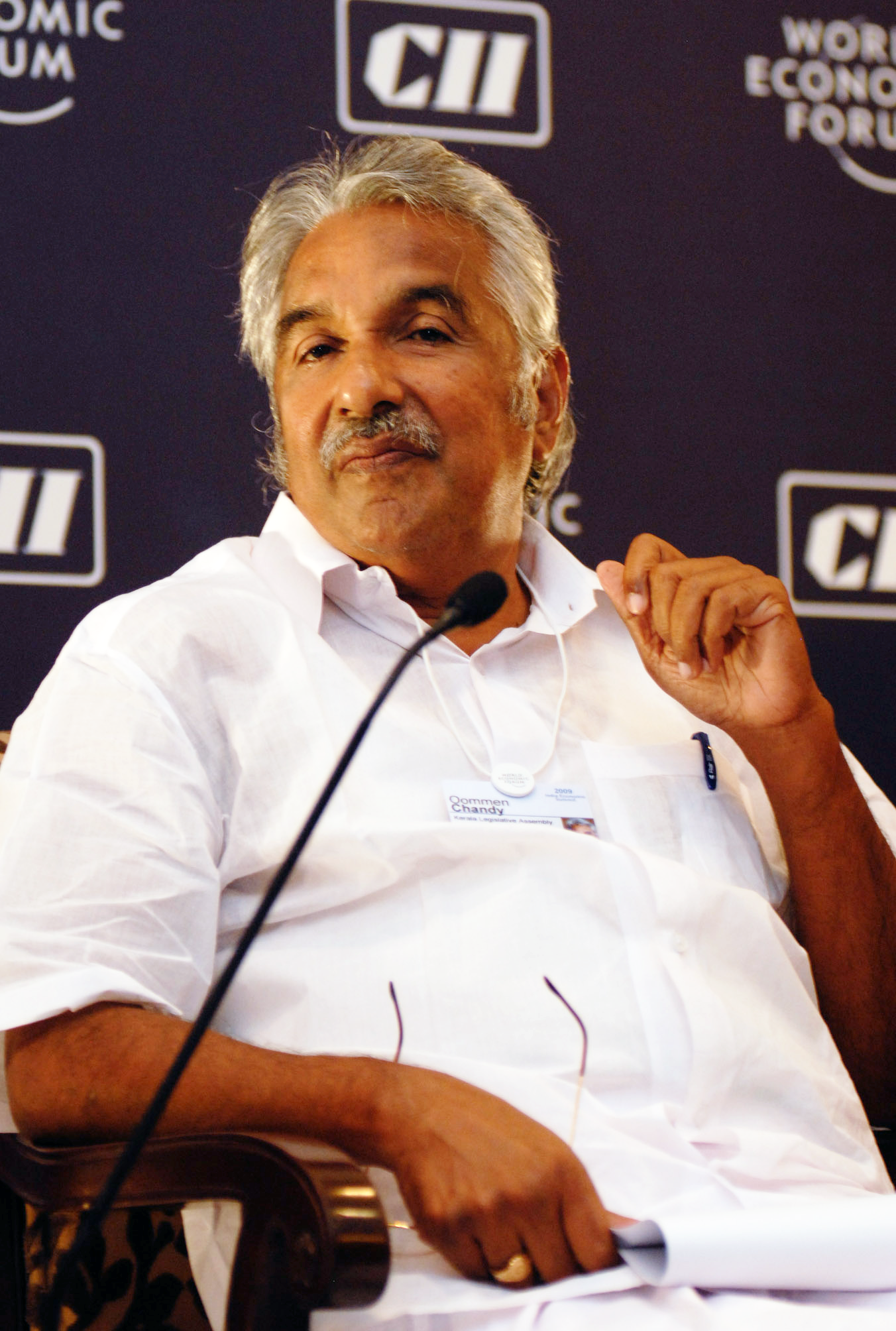 NEW DELHI/INDIA, 09NOV09 - Oommen Chandy in the Interactive Session; How Can Responsible and Collaborative Political Dialogue Become the Norm? Participants captured during the World Economic Forum's India Economic Summit 2009 held in New Delhi, 8-10 November 2009. Copyright (cc-by-sa) © World Economic Forum ( Photo Matthew Jordaan )